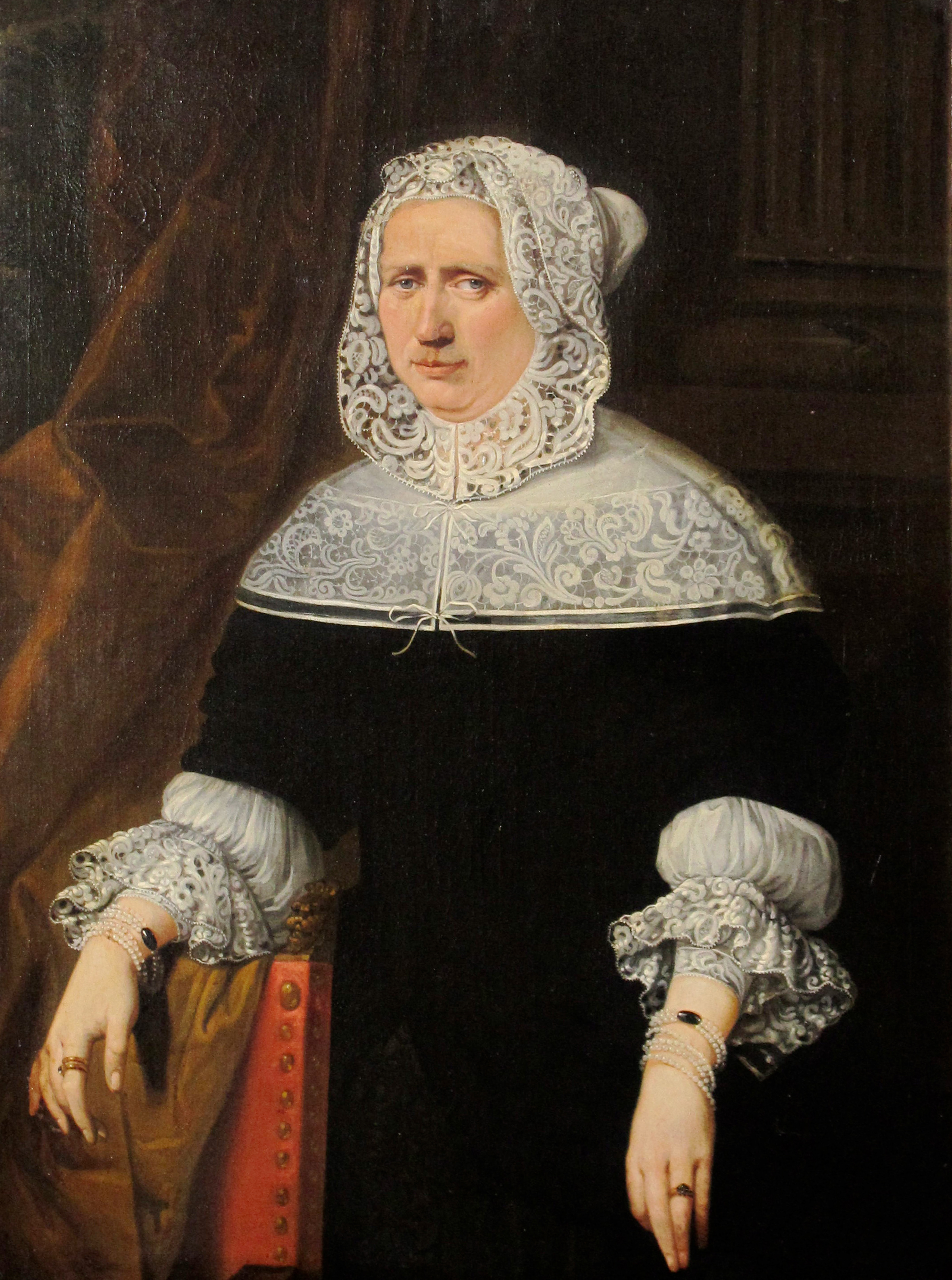 Catharina de Dryver (1635-1688), wife of Pieter de Meester (1626-1691) - Geboren op 19 januari 1635 als dochter van een bierbrouwer huwde Catharina in 1657 Pieter de Meester (zie S/1226). Dankzij haar kreeg Pieter toegang tot het Mechelse stadsbestuur en tot andere hoge ambten. Een kleinzoon van het paar trouwde met Anna Maria Hillema, langs welke kant de familie in het bezit geraakte van het landgoed Ravestein. Catharina overleed op 28 november 1688.